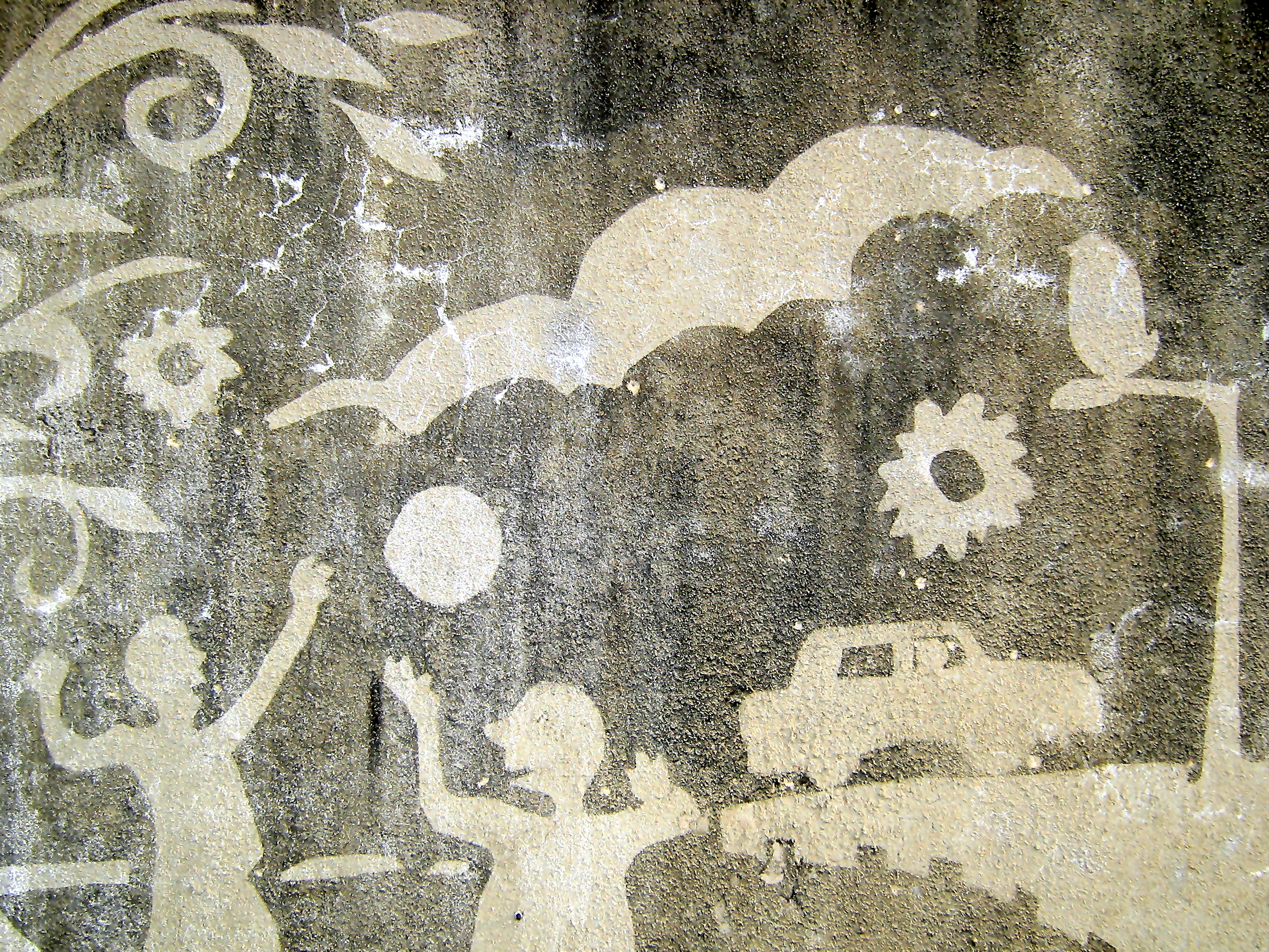 In Apr/May 2009, I took 15 days to walk all the way from Tokyo to Kyoto, roughly following the 546km long, ancient highway, the Nakasendo, alone. This picture was taken on one of the many training walks I did for the long solo walk in Singapore. Read about my preparations and my time in Japan at .